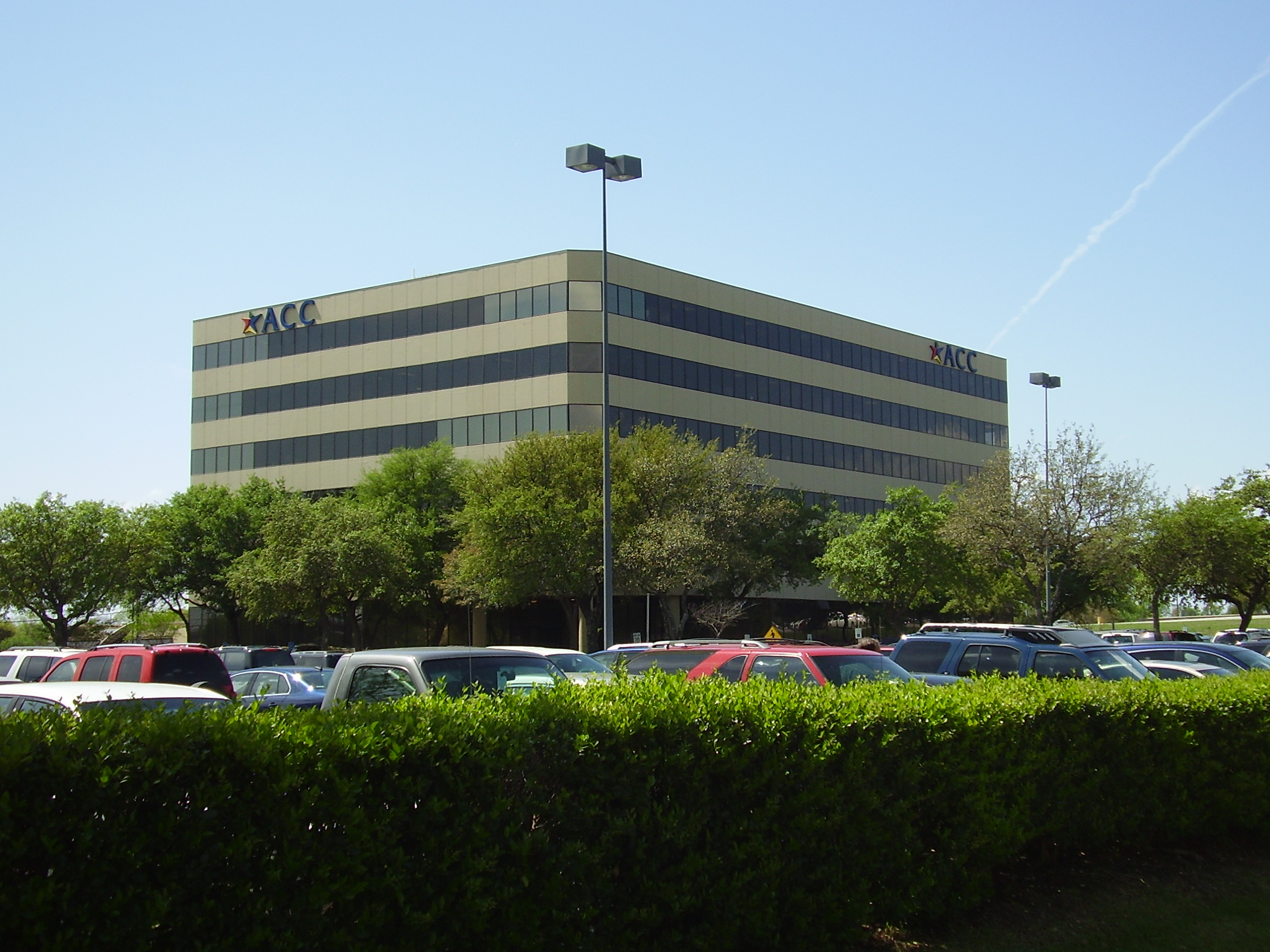 Highland Business Center - Headquarters of Austin Community College (ACC)